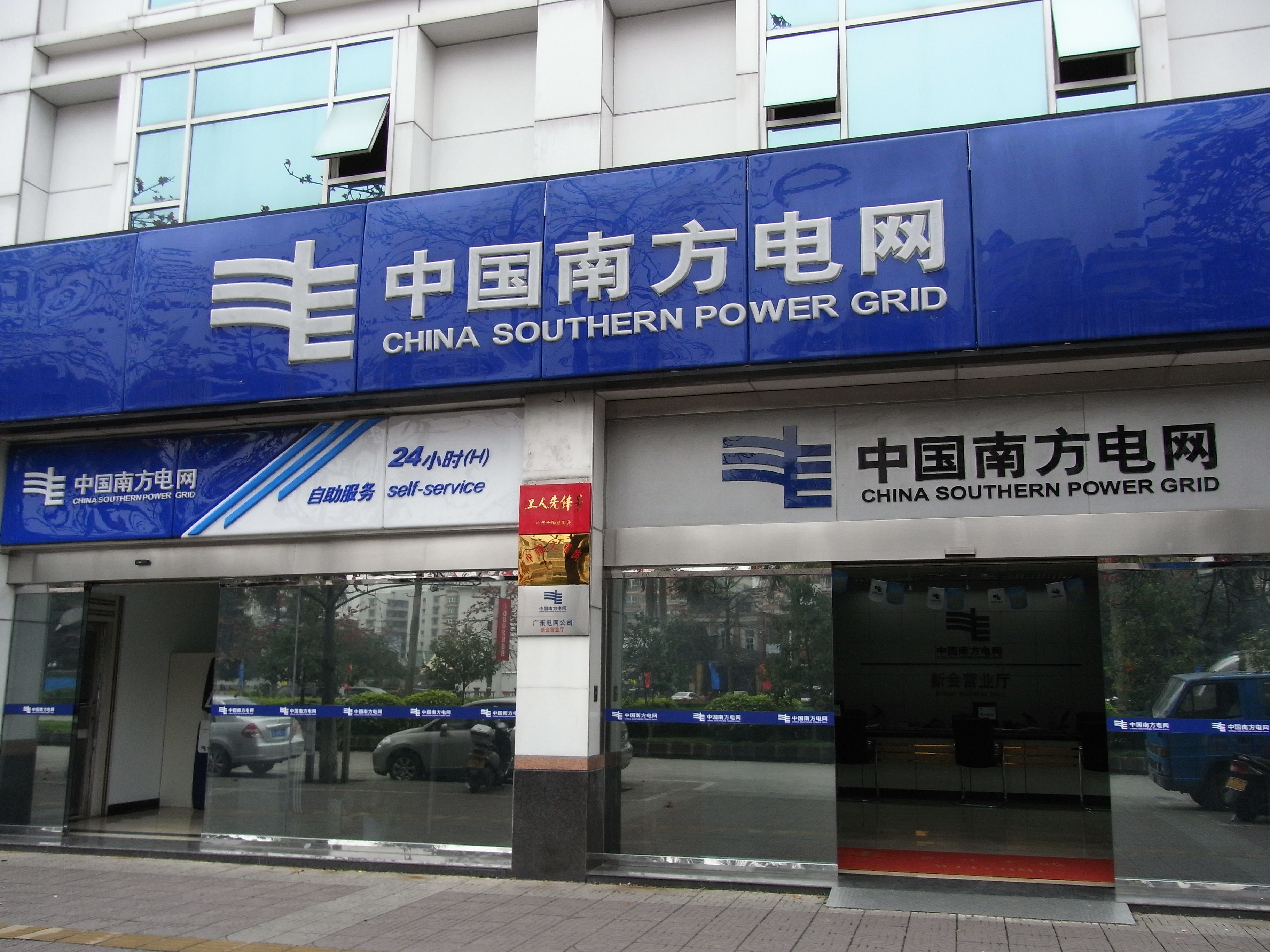 新會 Gangzhou Dadaozhong 16 岡州大道中 中國南方電網 China Southern Power Grid